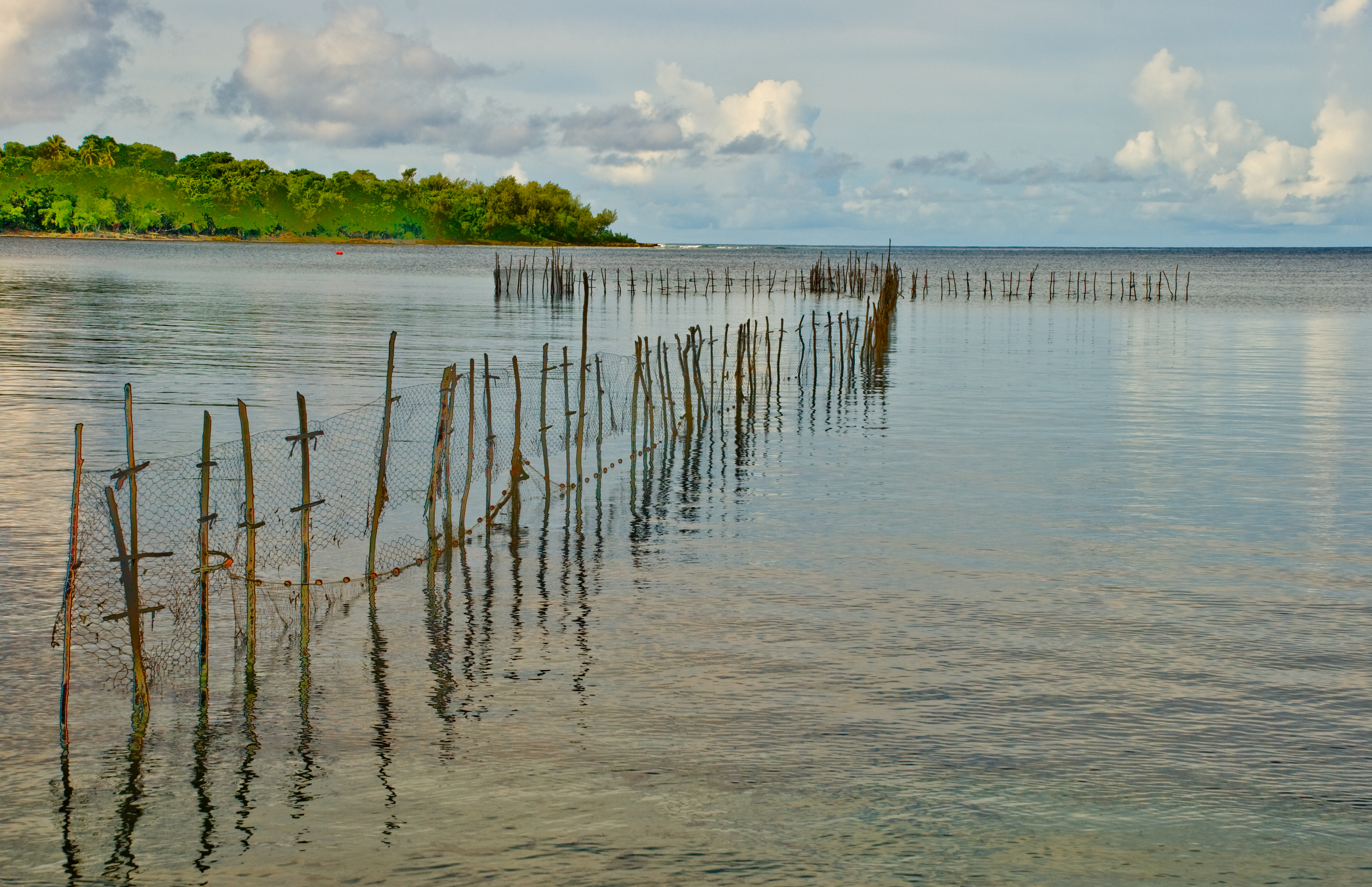 Fish trap, Pango, Efate, Vanuatu, April 2008